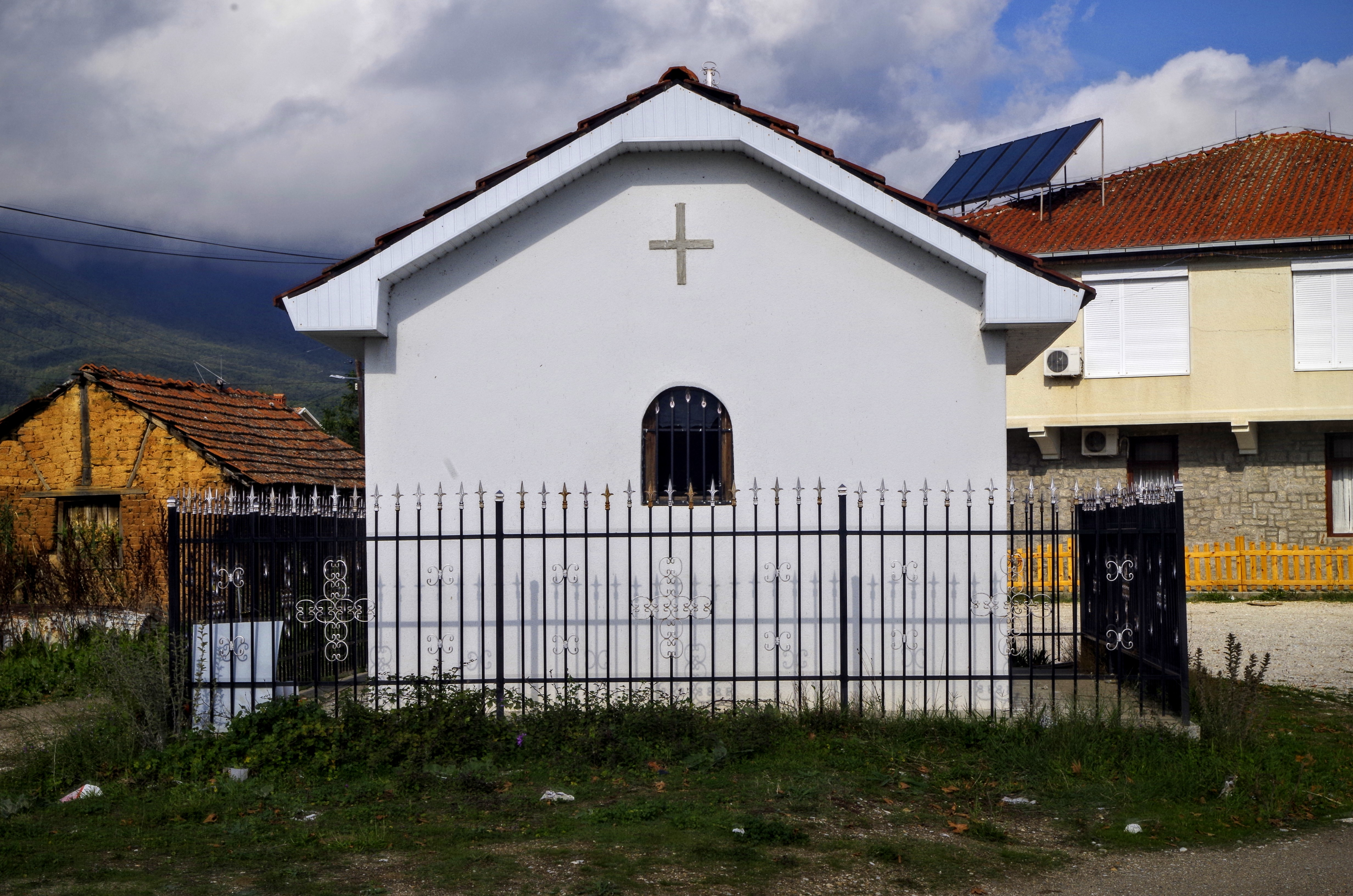 View of the St. Athanasius Church in the village Stenje